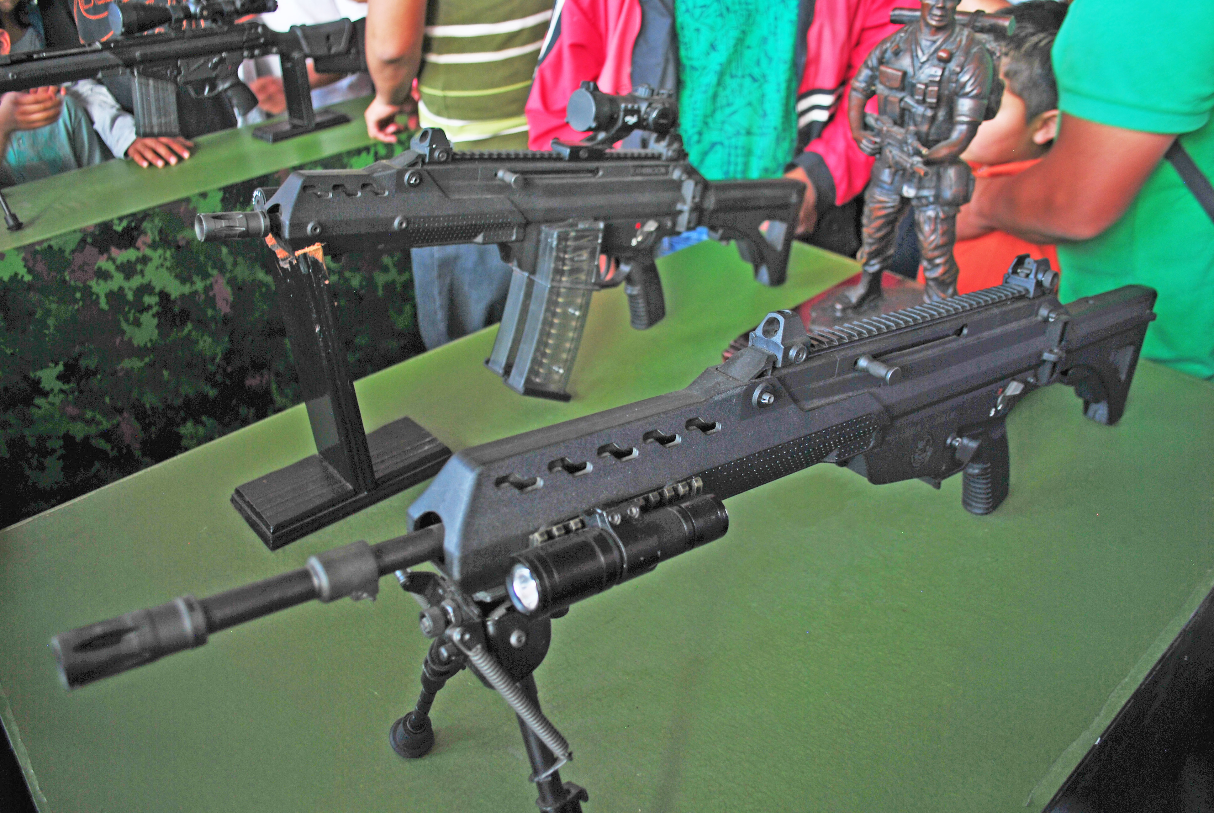 Exhibition "Armed Forces ... passion to serve Mexico," Zócalo of Mexico City. Second-generation FX-05 assault rifle and carbine on display at a Mexican Army public relations event in Constitution Square. Note the black colored finish and the mounted red dot scope on the carbine.